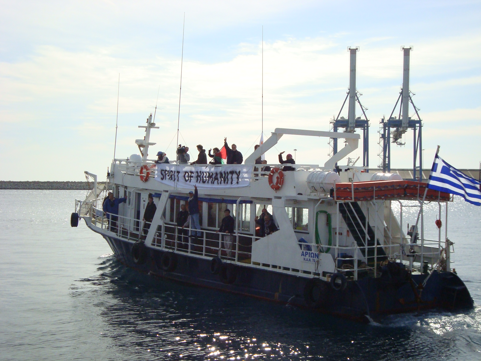 SPIRIT OF HUMANITY leaving Larnaca Port